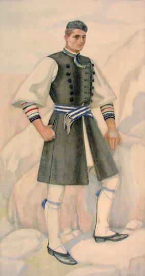 Greek Macedonian Peasant Man's Costume (Macedonia, Boufi) - Greek Costume Collection by NICOLAS SPERLING (Russia 1881-1940 / act: Athens).